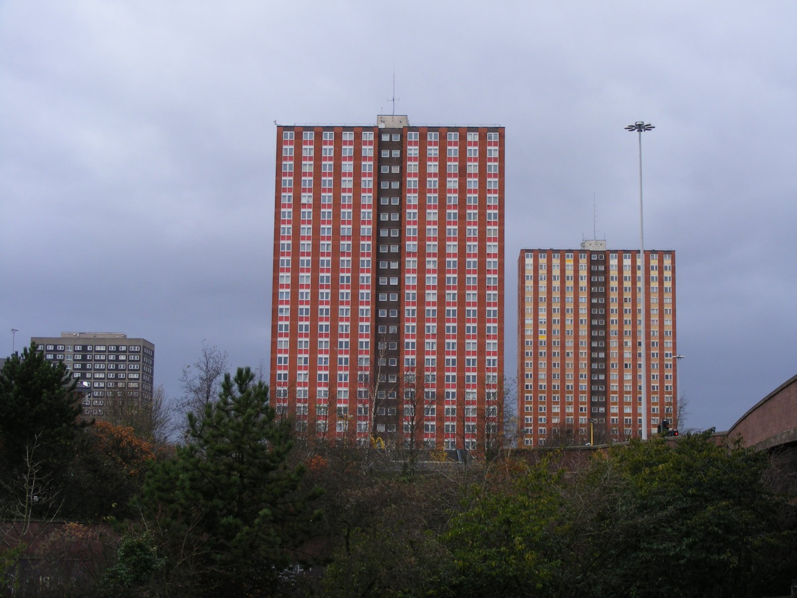 Thorn Court Spruce Court and Apple Tree Court in Salford, Greater Manchester, England.